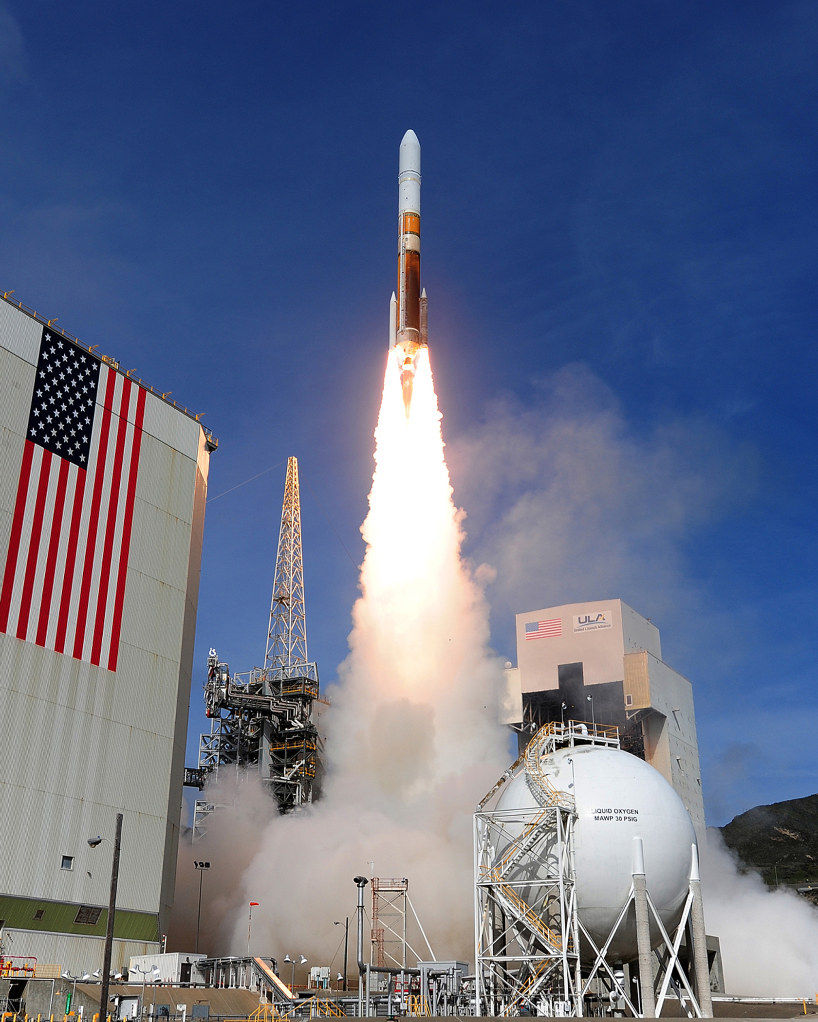 A United Launch Alliance Delta IV Medium+ (5,2) launches from Vandenberg Air Force Base, Calif., April 3, 2012. The launch was the Department of Defense’s first-ever Delta IV Medium launch vehicle configured with a 5-meter payload fairing and two solid rocket motors.